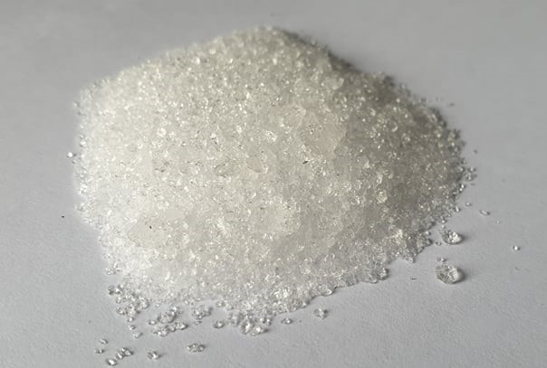 Sodium acetate